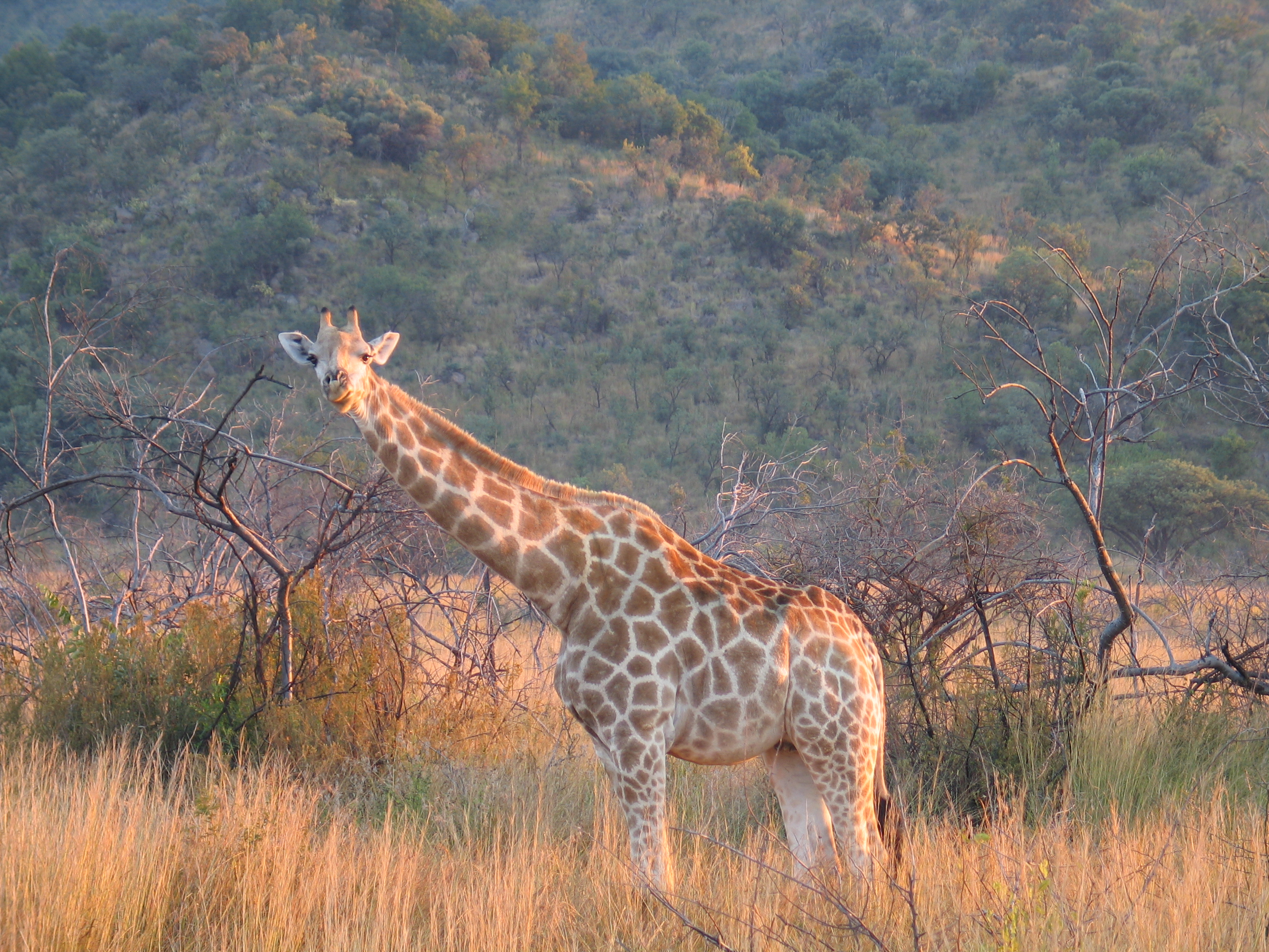 Female Giraffe at dawn in Pilanesberg Game Reserve, South Africa